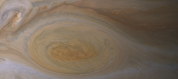 View of the Jupiter's storm.